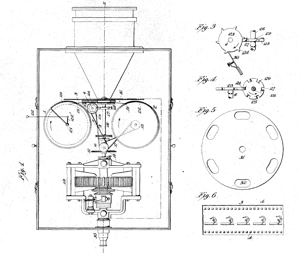 A picture of the Edison Kinetoscope from his U.S. Patent 0,589,168.